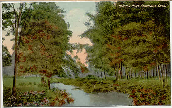 Postcard: Noroton River scene, Springdale section of Stamford, Connecticut, 1911 postmark